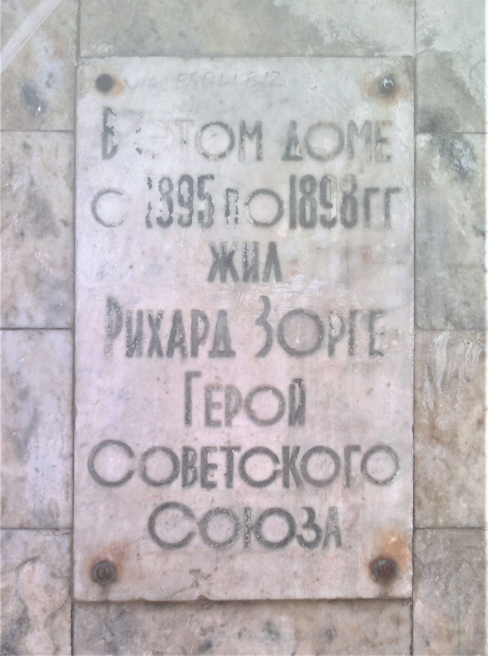 Memorial plaque of Richard Sorge in Baku